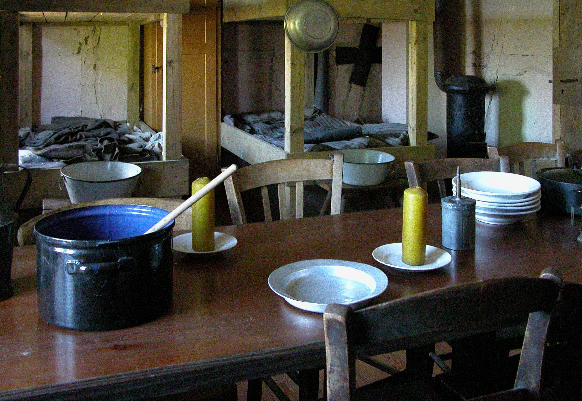 Sleeping chamber for French prisoners of war.